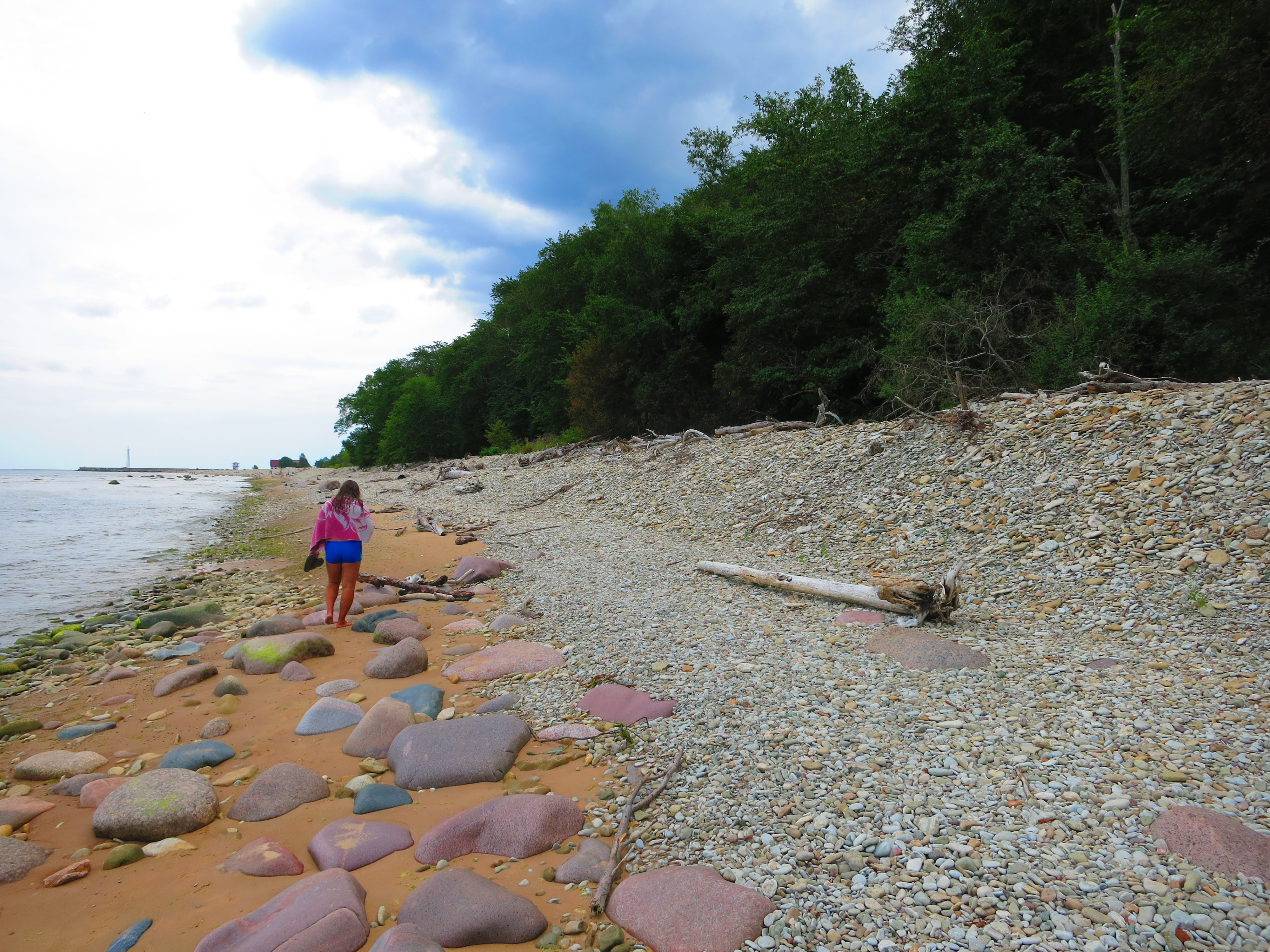 Beach of Gulf of Finland between Toila Spa Hotel and Toila harbour